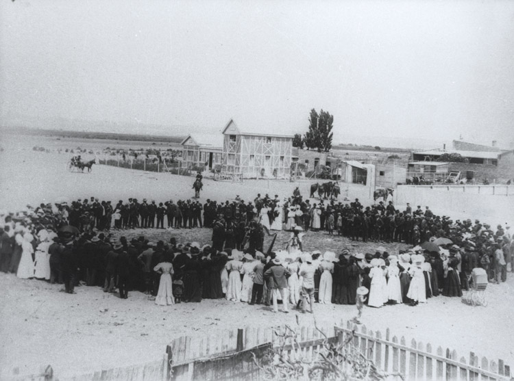 The eisteddfod was an important event in the Welsh Settlement, and it is still held each year in the Chubut Valley and in the foothills of the Andes.